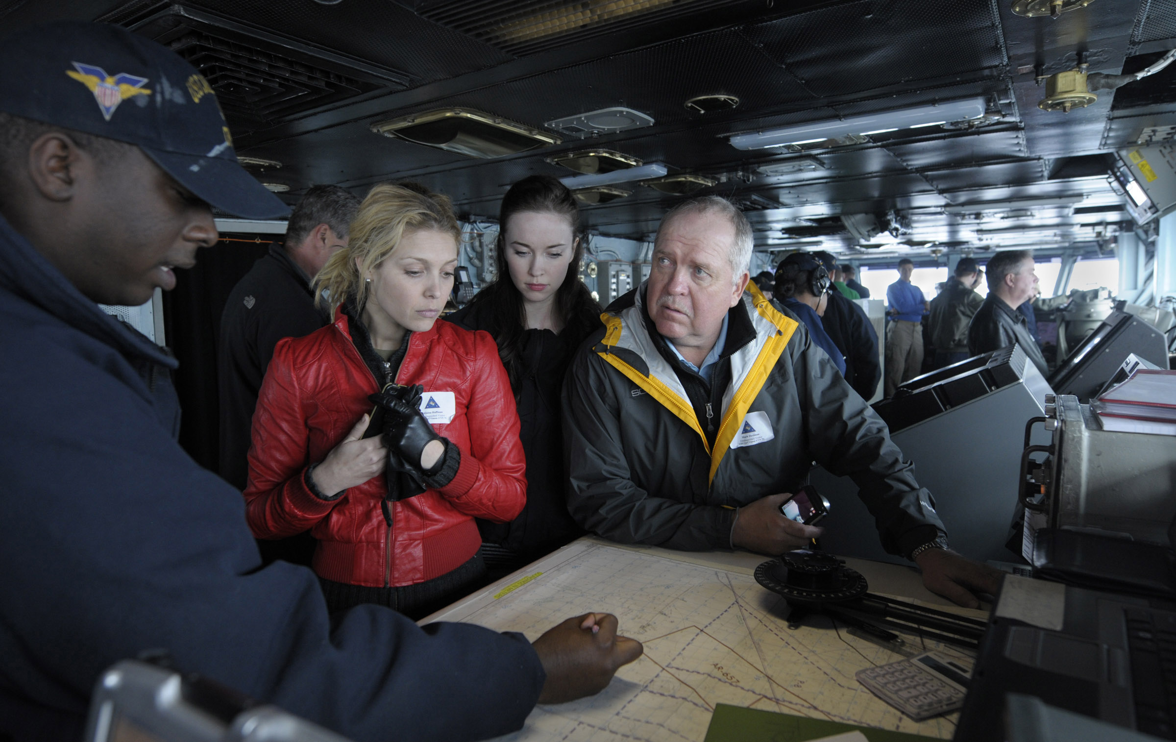 PACIFIC OCEAN (Dec. 16, 2010) Stargate Universe actresses Alaina Huffman, left, Elyse Levesque and set director Mark Davidson learn about plotting a course on the navigation bridge of the Nimitz-class aircraft carrier USS Carl Vinson (CVN 70). Carl Vinson and Carrier Air Wing (CVW) 17 are on a three-week composite training unit exercise followed by a western Pacific deployment. (U.S. Navy photo by Mass Communication Specialist Seaman Zachary David Bell/Released)